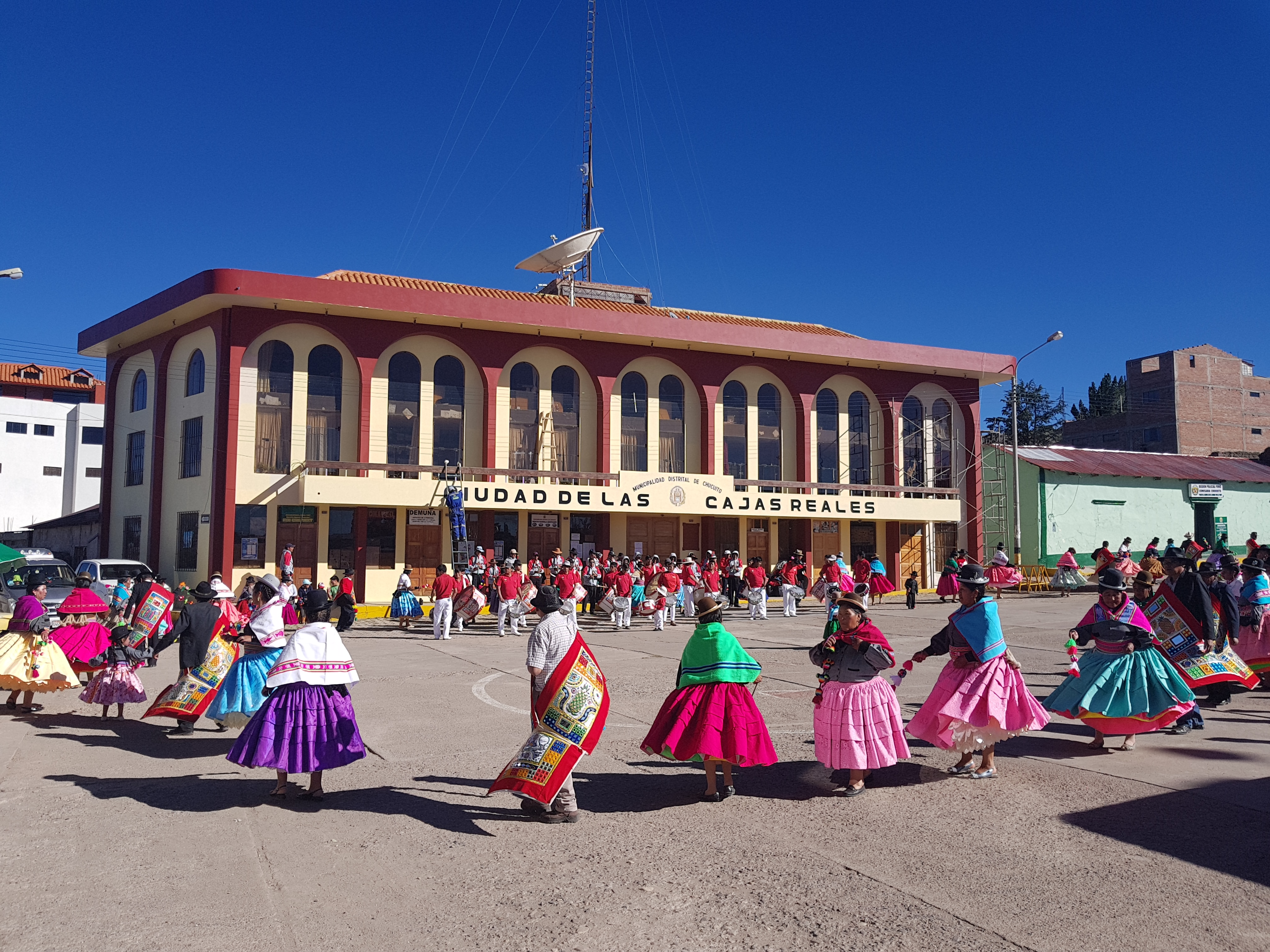 Chucuito Main Square